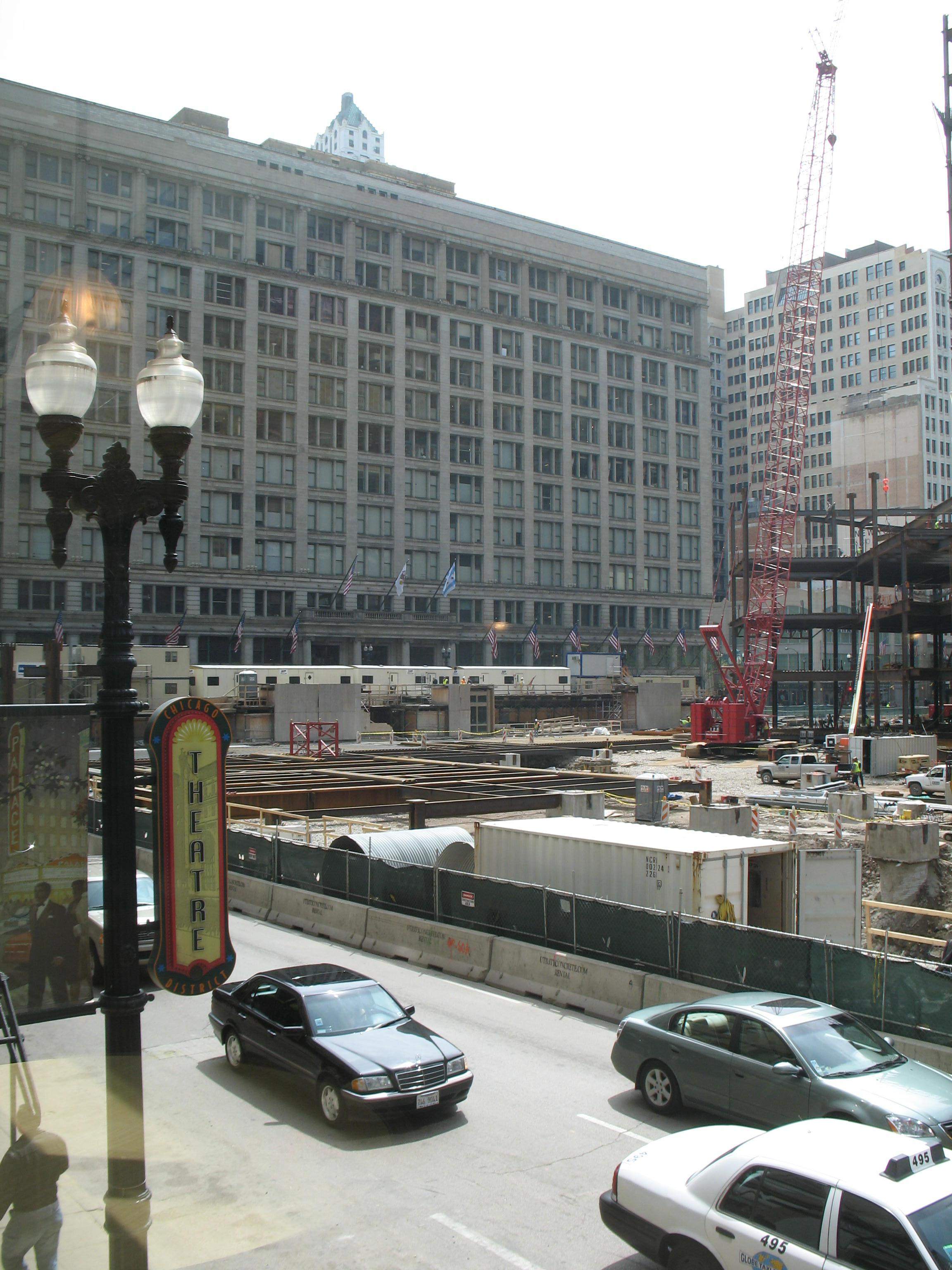 en:108 North State Street